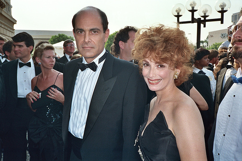 Alan Rachins and his wife Joanna Frank at the Emmy Awards in 1988